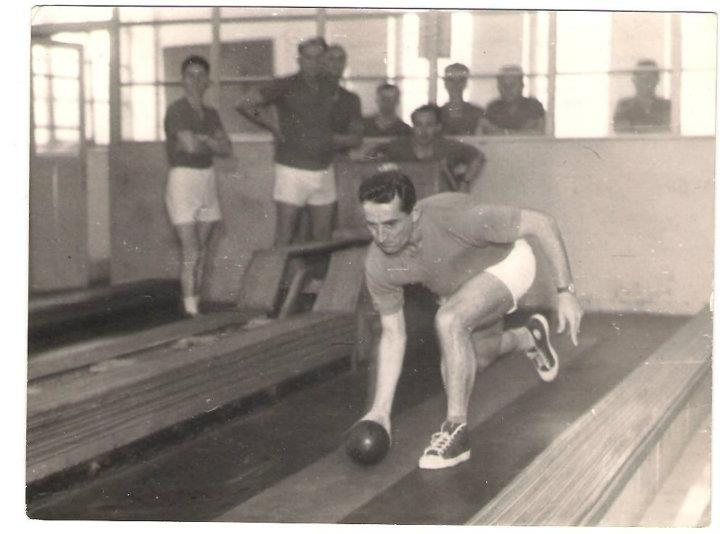 Ignac Pozsonyi after of the his soccer years